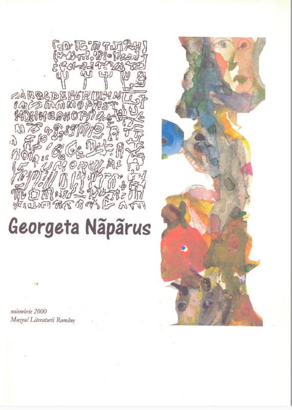 Catalogue Georgeta Naparus 1997